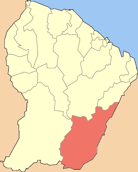 Made map myself.